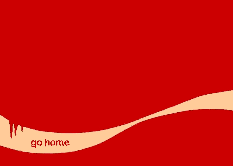 Subvertising